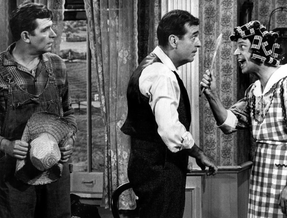 Photo from a skit from Andy Griffith's Uptown-Downtown Show. From left: Griffith, Tennessee Ernie Ford (as the husband), and Don Knotts (as Ford's wife).